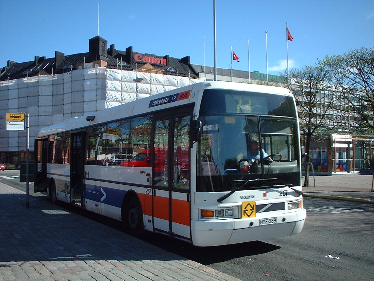 Concordia Bus Ikarus E94 at Hakaniemi metro station, Helsinki. Volvo chassis bus.